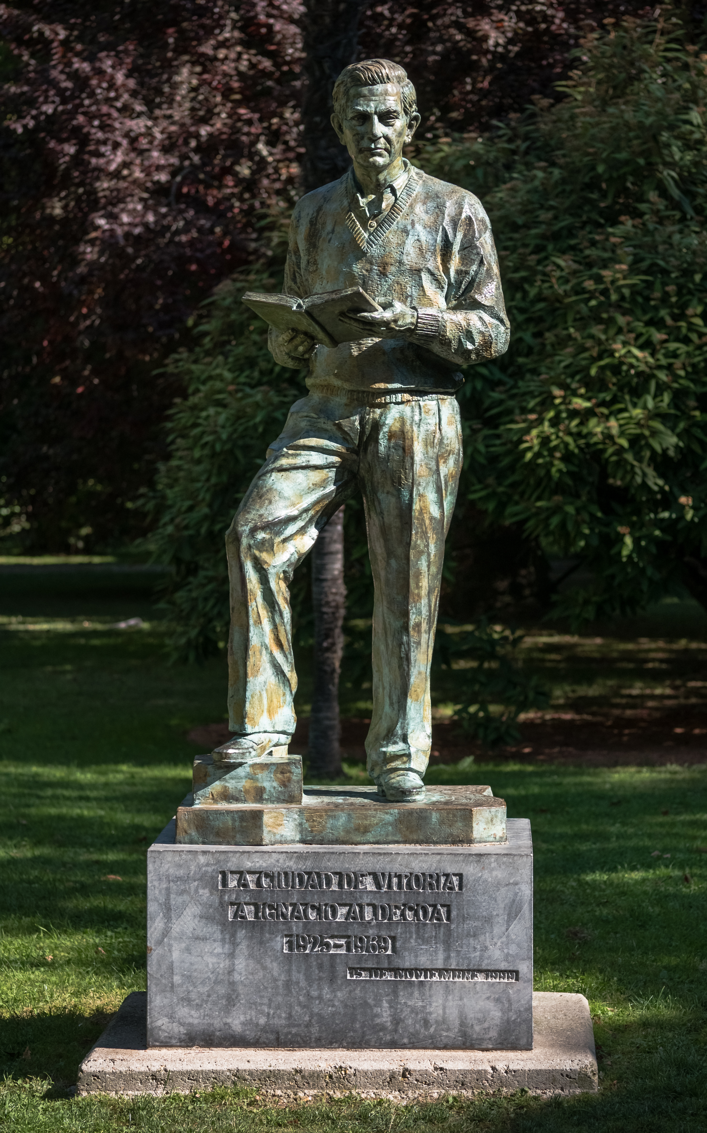 Statue of Ignacio Aldecoa in the Florida Park in Vitoria-Gasteiz, Basque Country, Spain